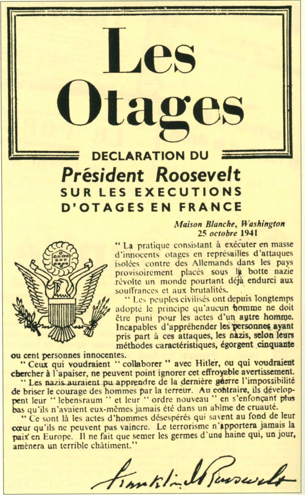 US government propaganda tract, sent after Châteaubriant's hostages execution.